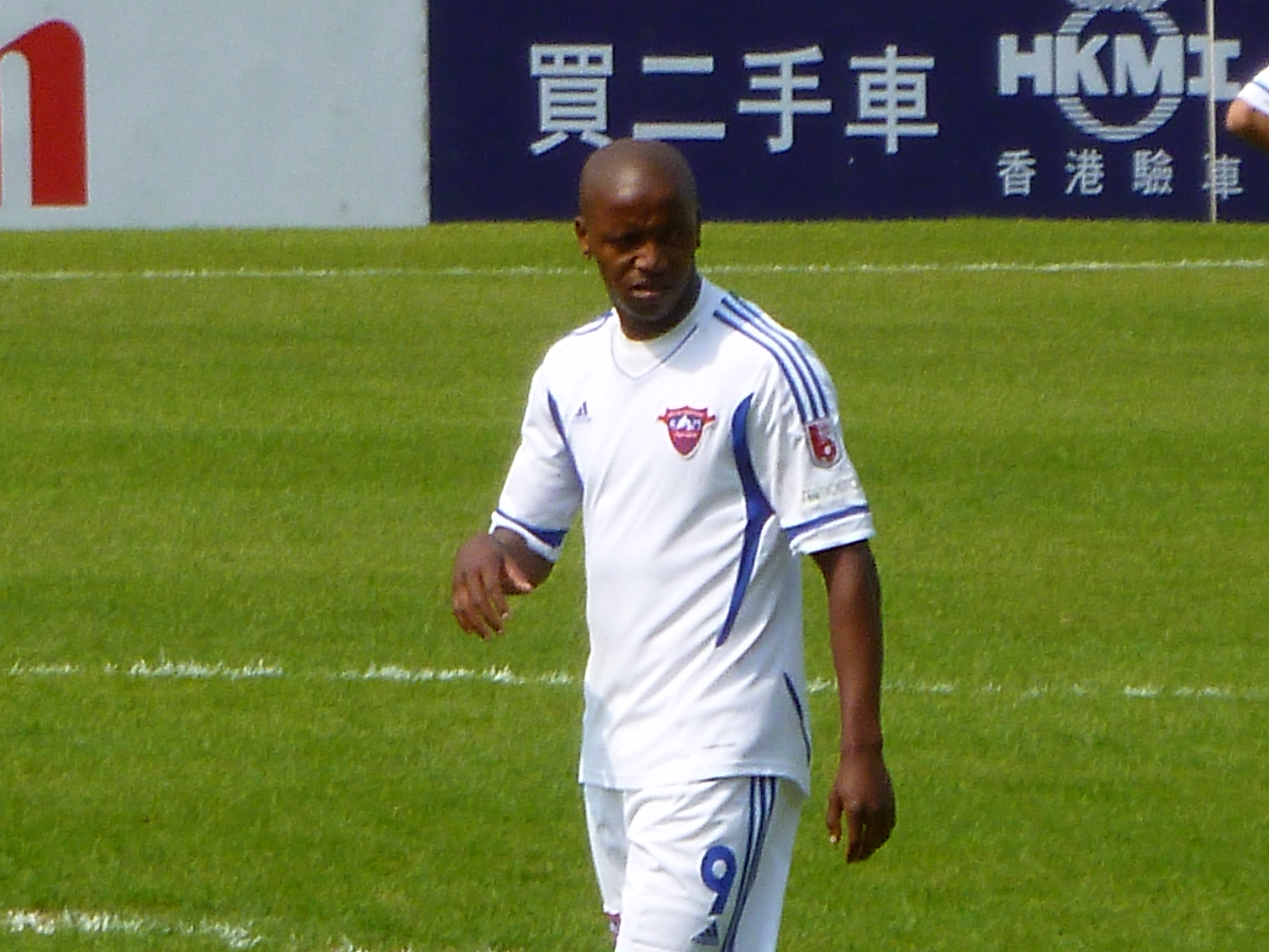 Makhosonke Bhengu (25 Mar 2012 Hong Kong FA Cup, Hong Kong Sapling vs Tuen Mun, Mong Kok Stadium)